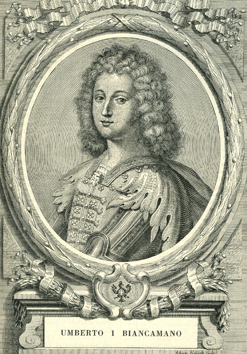 Humbert I "Biancamano" of Savoy